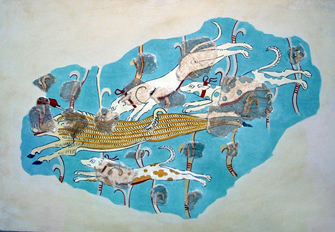 Wall painting fragments with a representation of a wild boar hunt. From the later Tiryns palace. National Archaeological Museum of Athens.